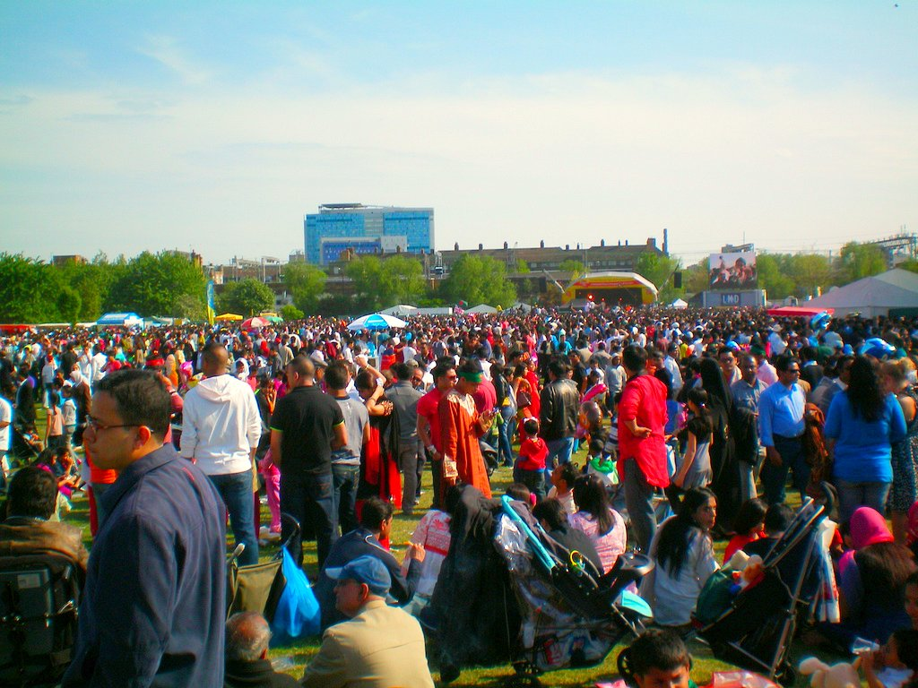 Thousands of Bengalis attend the Baishakhi Mela (estimated about 80,000 people) in Weavers Field, East London.